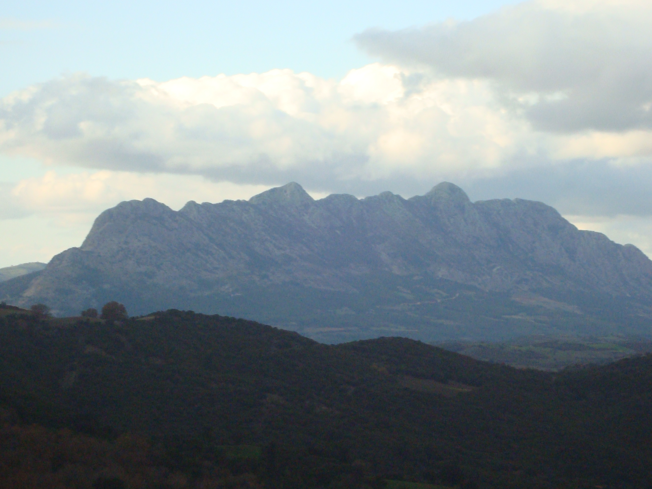 Santomeri moyntain in Achaea Greece